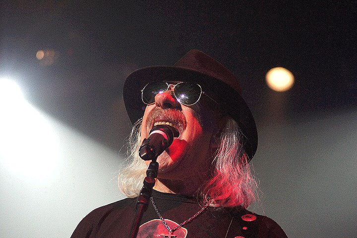 Willy Quiroga